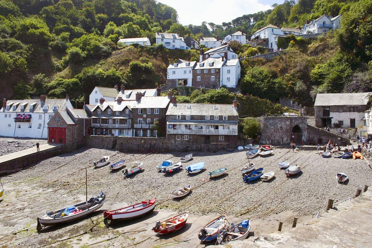 Clovelly is a village on the north Devon coast, England, about twelve miles west of Bideford. It is a major tourist attraction, famous for its history and beauty, its extremely steep car-free cobbled main street, donkeys, and its location looking out over the Bristol Channel.